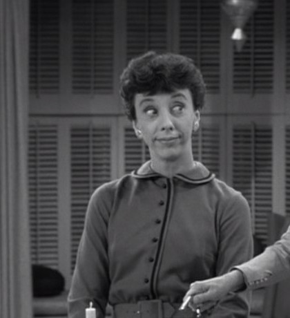 Supporting actor Ann Morgan Guilbert alongside Mary Tyler Moore in the Dick Van Dyke Show episode "The Night the Roof Fell In".